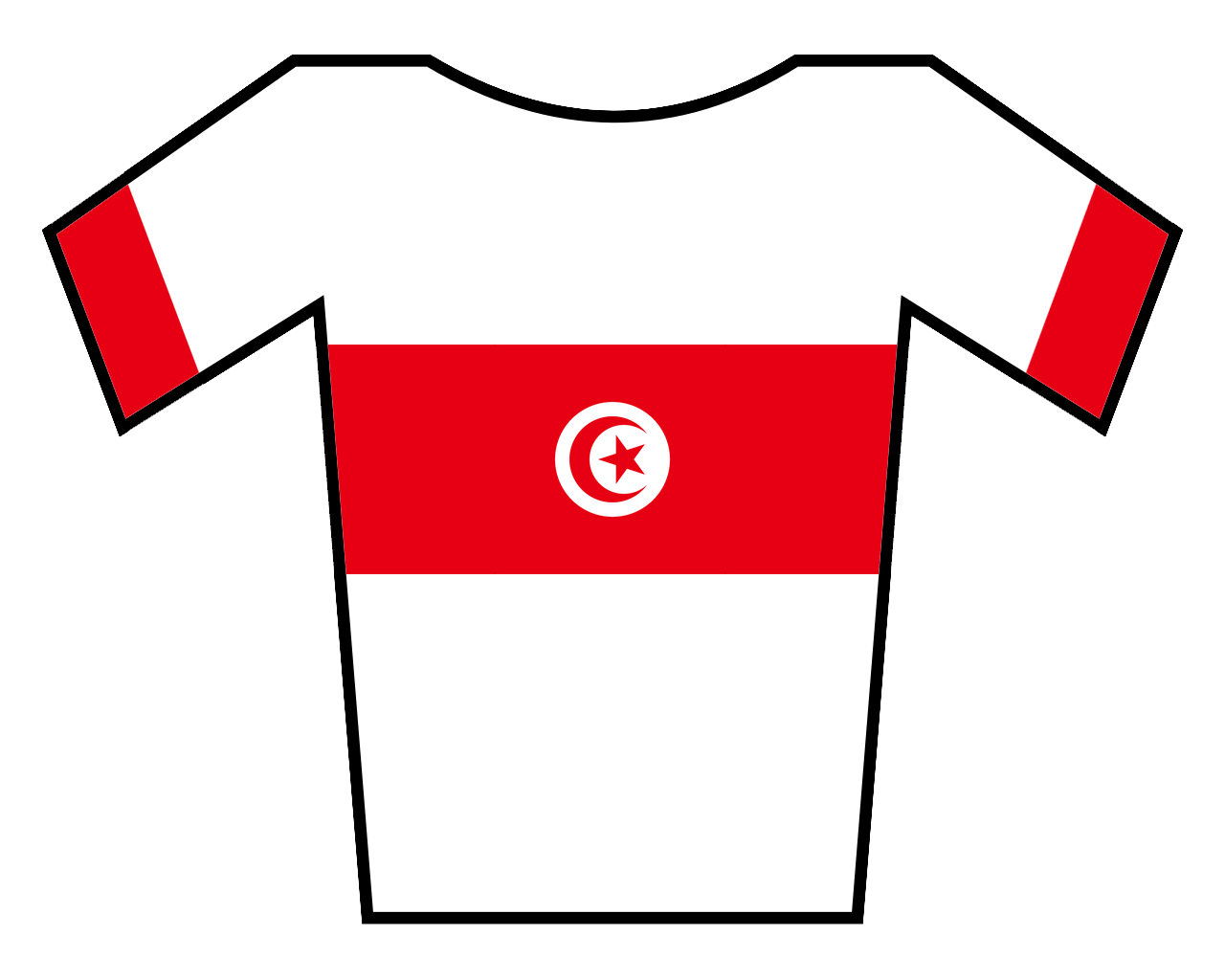 National champion cycling jersey of Tunisia